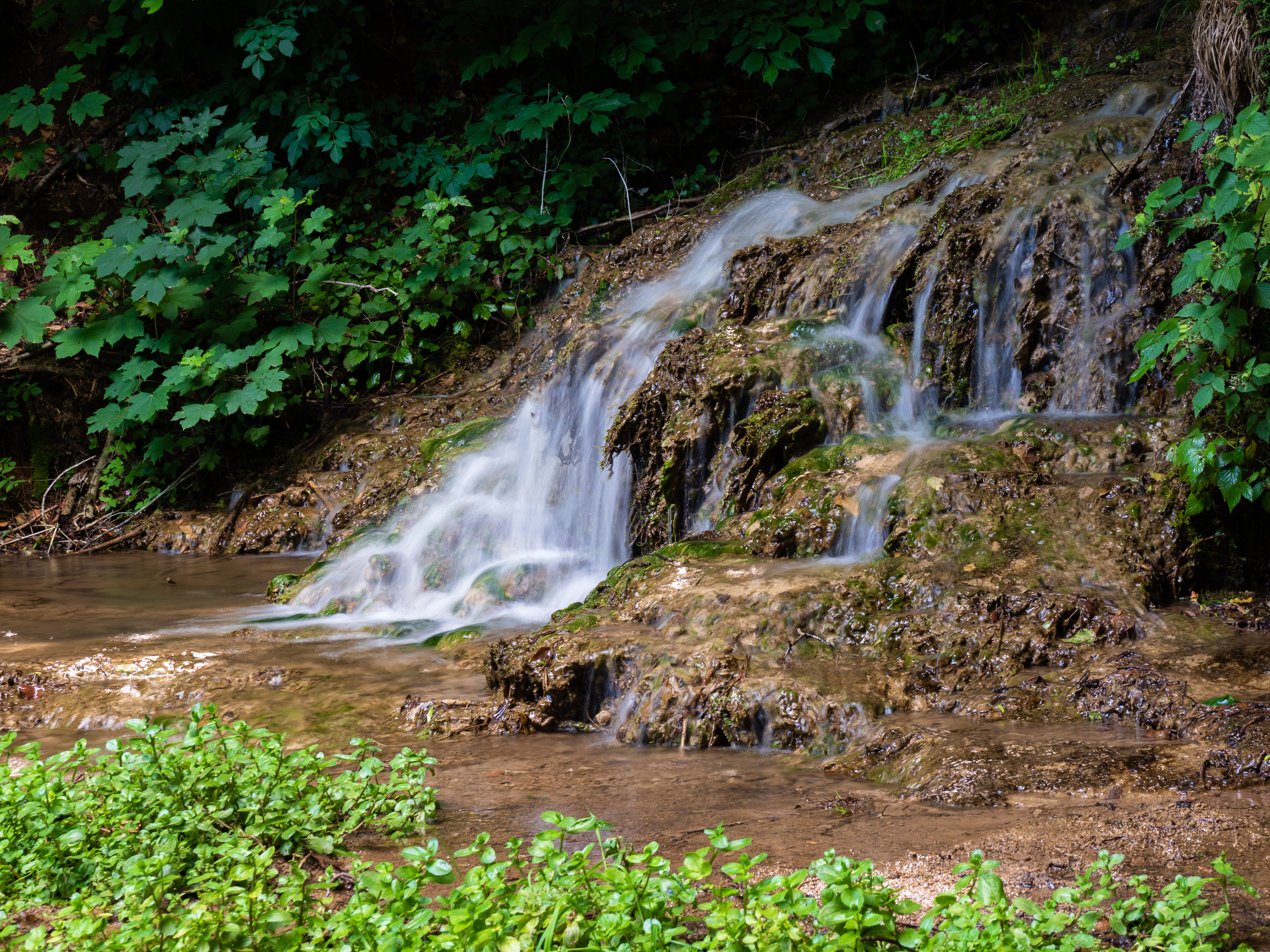 Wedenbach cascades in Streitberg